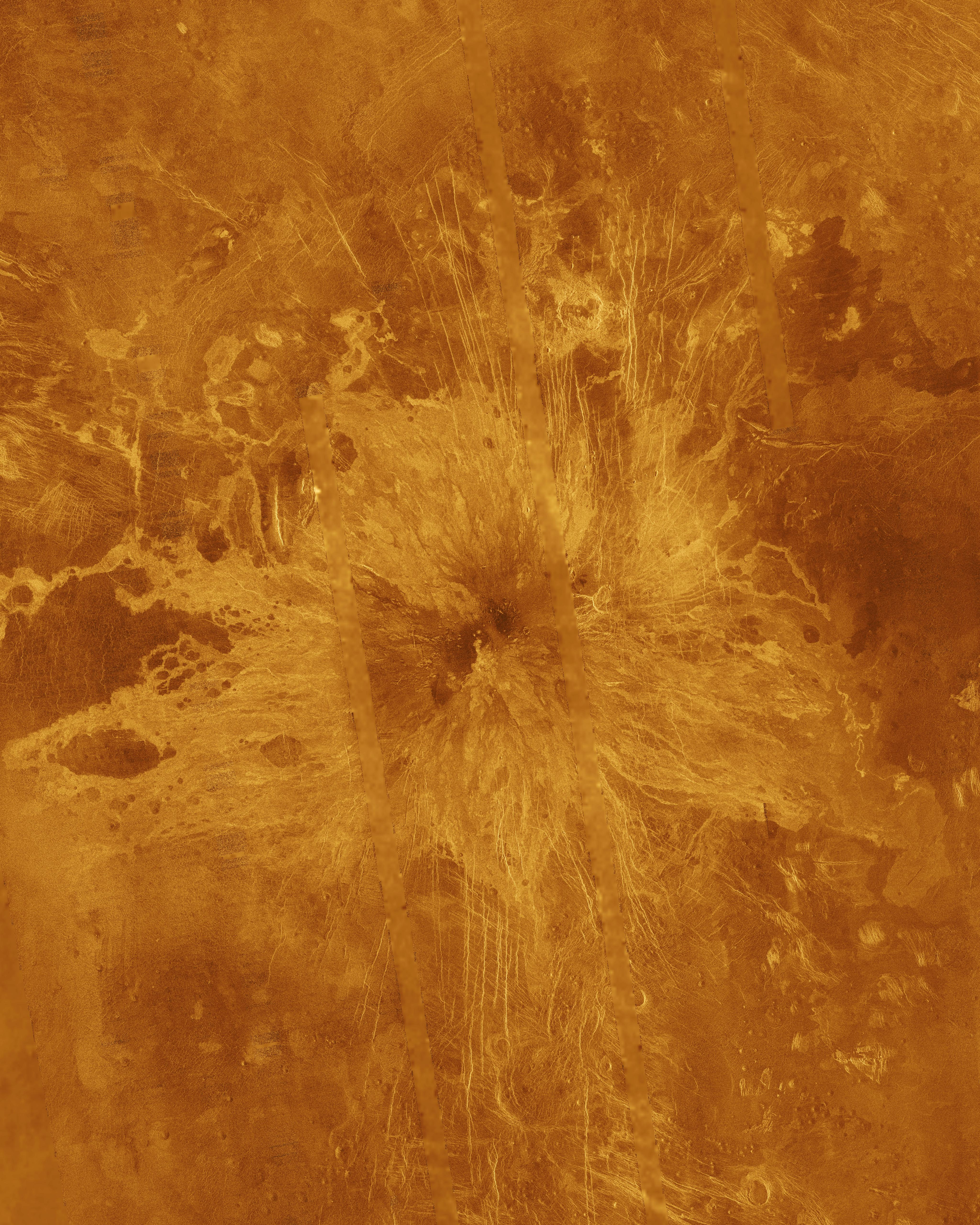 Ushas Mons, a 2-kilometer-high (1.25 mile) volcano in the southern hemisphere of Venus is shown in this Magellan radar image. The image is centered at 25 degrees south latitude, 323 degrees east longitude, and shows an area approximately 600 kilometers (360 miles) on a side. The volcano is marked by numerous bright lava flows and a set of north-south trending fractures, many of which appear to have formed after the lavas were erupted onto the surface. In the central summit area, however, younger flows remain unfractured. An impact crater can be seen among the fractures in the upper center of the image. The association of faulting and volcanism is common on this type of volcano on Venus, and is believed to result from a large zone of hot material upwelling from the Venusian mantle, a phenomenon known on Earth as a "hot spot." Simulated color is used to enhance small-scale structures. The simulated hues are based on color images recorded by the Venera 13 and 14 landing craft. The data were acquired during the third eight-month cycle of Magellan's radar mapping, which ended in September 1992. Several narrow gaps in the Magellan coverage are filled with low-resolution radar data obtained by the Earth-based Arecibo radio telescope. The image was produced by the Solar System Visualization Project and the Magellan Science Team at the Jet Propulsion Multimission Image Processing Laboratory. The Magellan mission is managed by JPL for NASA's Office of Space Science.